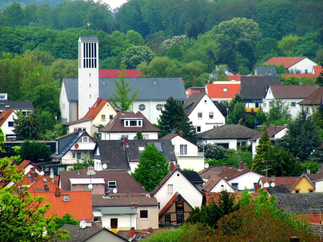 View of the lutheran church of Traisa, Mühltal municipality, Darmstadt-Dieburg county, Hesse, Germany - less foggy than the version file:Traisa-Kirche.jpg